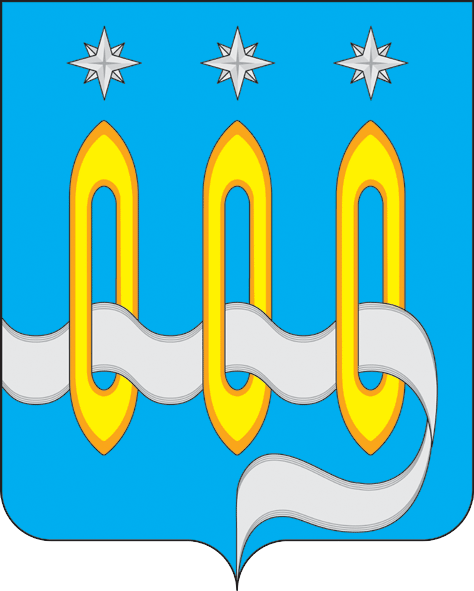 Shchelkovo (Moscow oblast), coat of arms